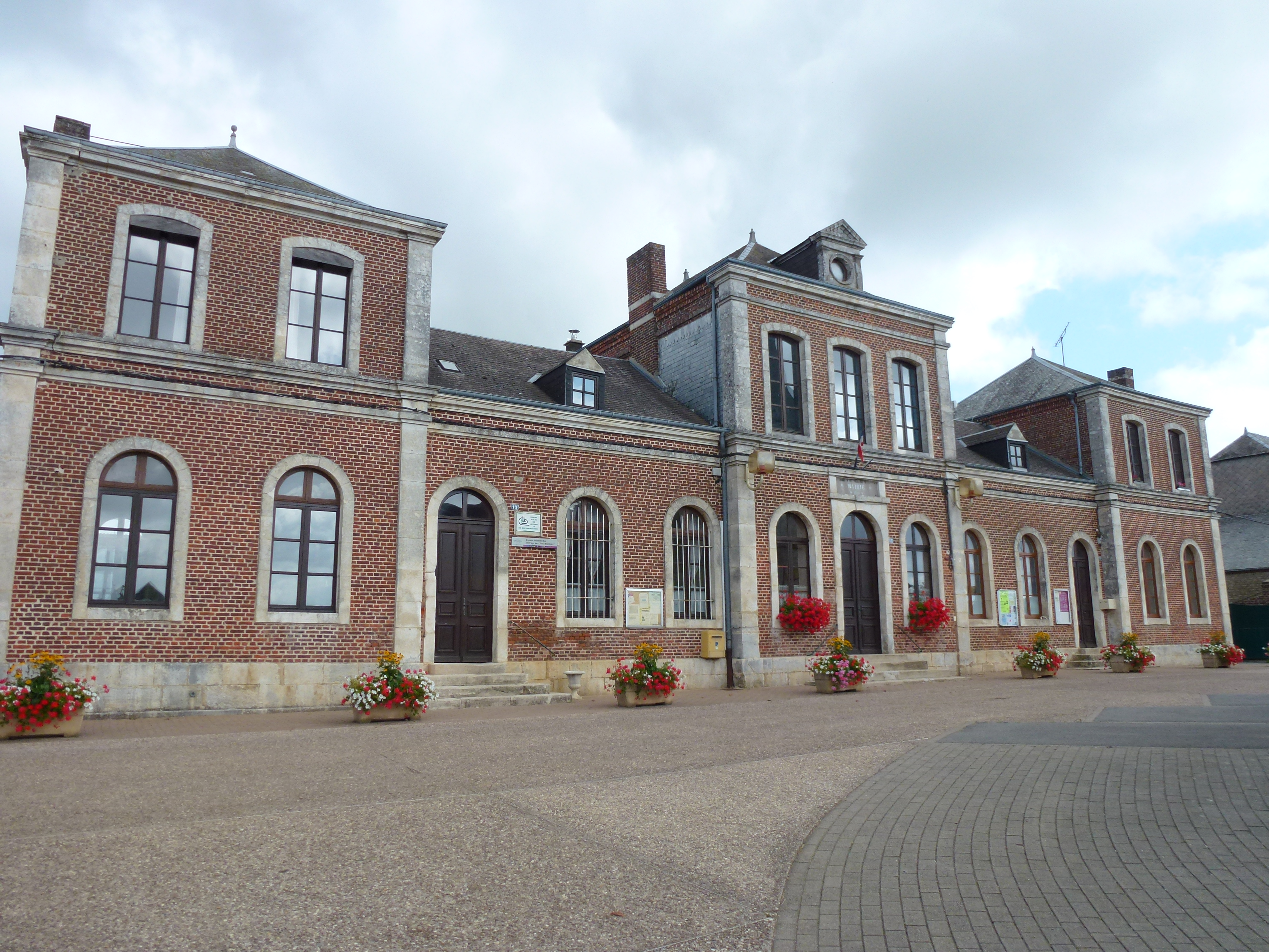 Any-Martin-Rieux (Aisne) mairie